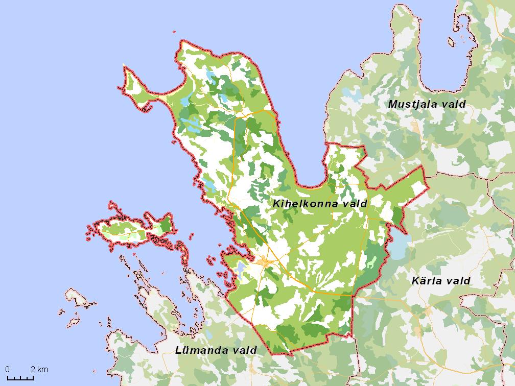 Map of municipality in Estonia